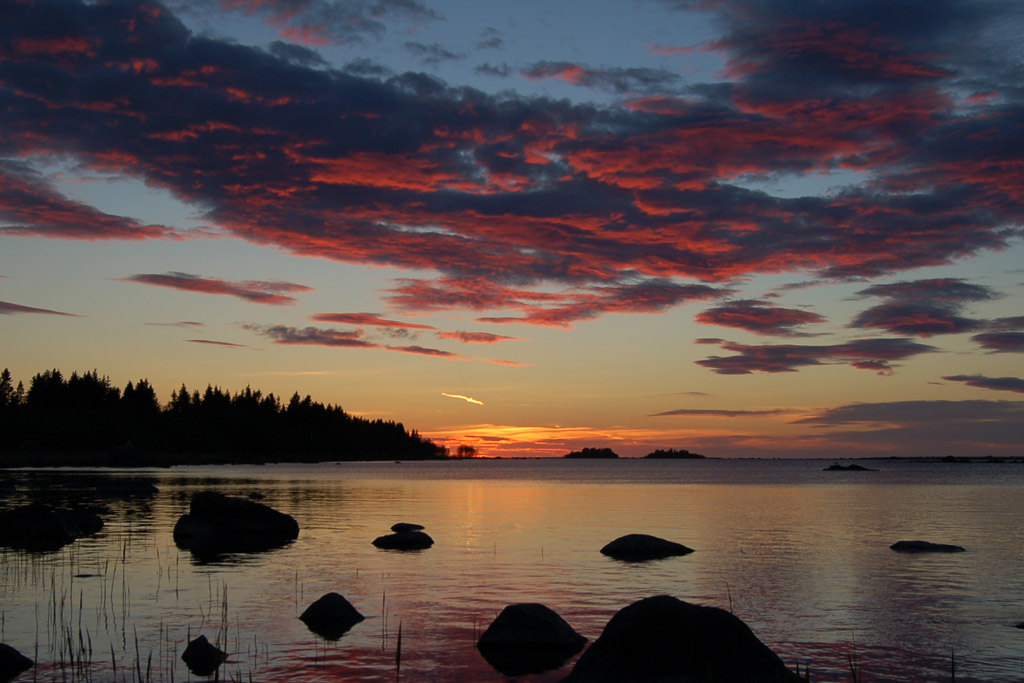 Sunset across the Gulf of Bothnia in Finland, June 2006.